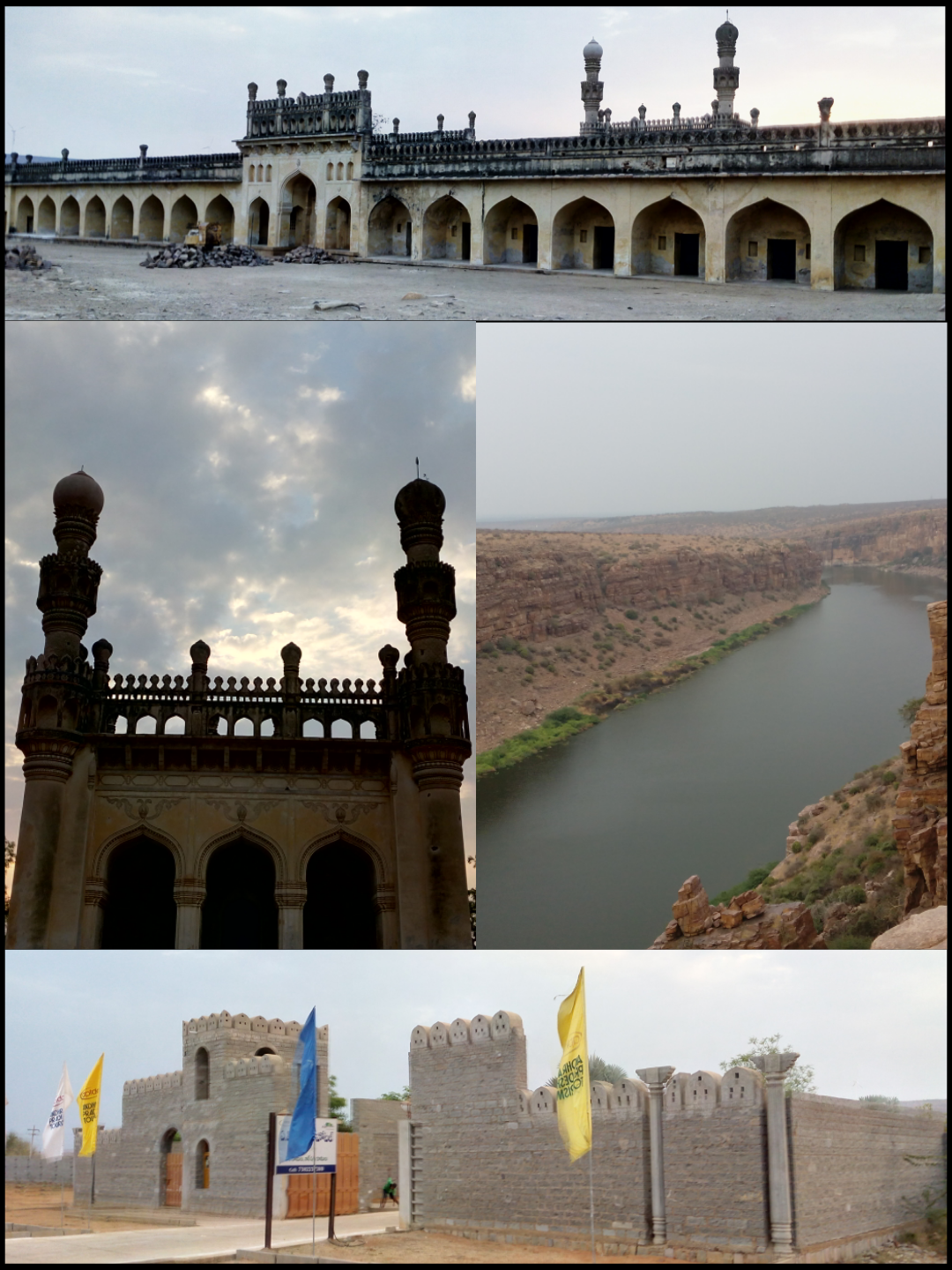 Gandikota Montage